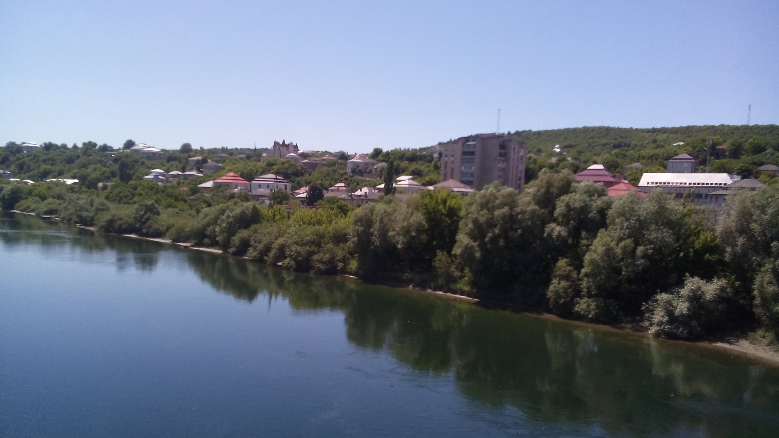 Otaci seen from the bridge over Dniester (Moldova-Ukraine border)